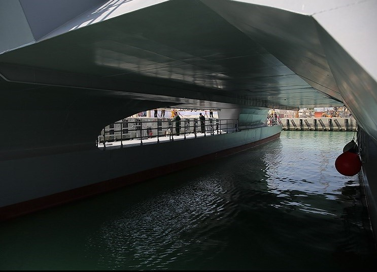 Accession ceremony of Shahid Nazeri speed vessel to Bushehr naval